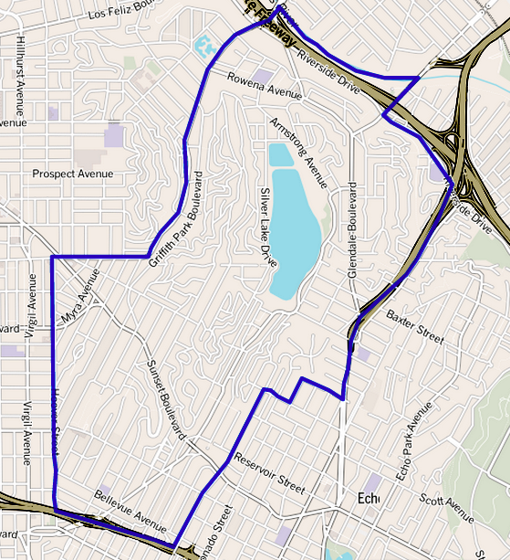 Map of Silver Lake, California, as delineated by the Los Angeles Times Other information Boundary map as drawn by the Los Angeles Times on a CC-by-SA background. Note at bottom right of map on the L.A. Times website noted above says "CC-by-SA" (which gives permission to use the map). There is a link there to which explains the meaning thereof. The base map is credited to The Times spells all this out at